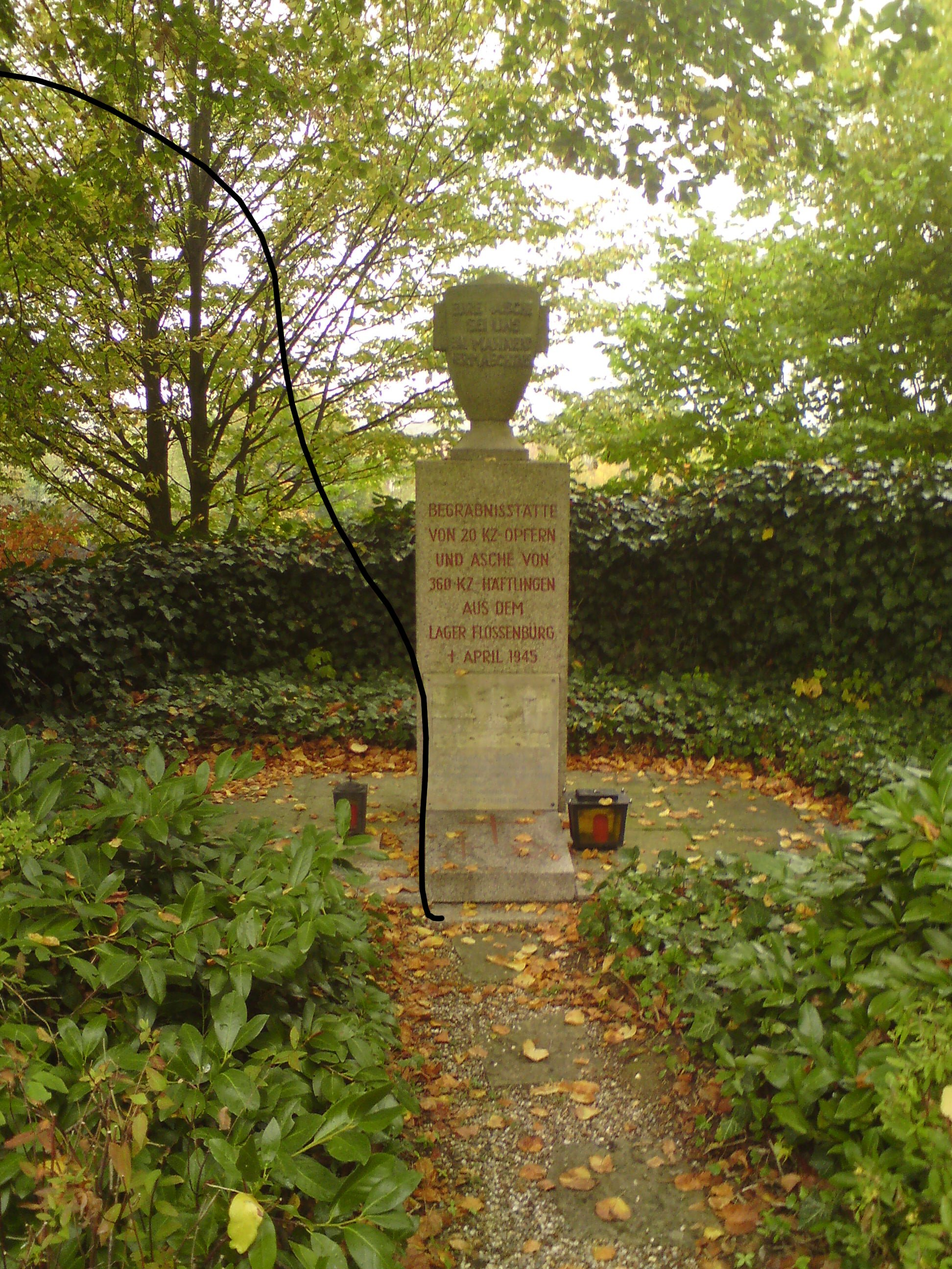 Concentration camp memorial in Saal an der Donau, Germany